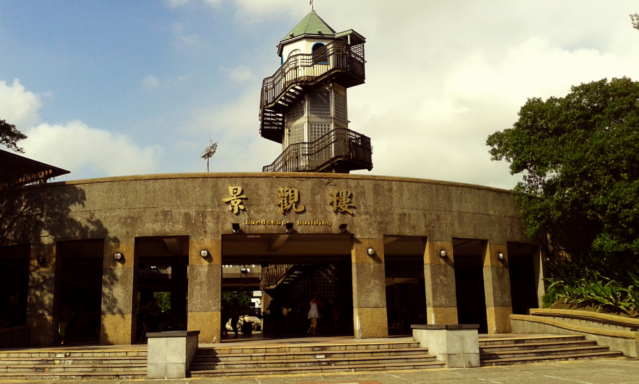 Observation deck in Xinzhuang Sports Park 中文（台灣）: 新莊體育園區內的景觀樓